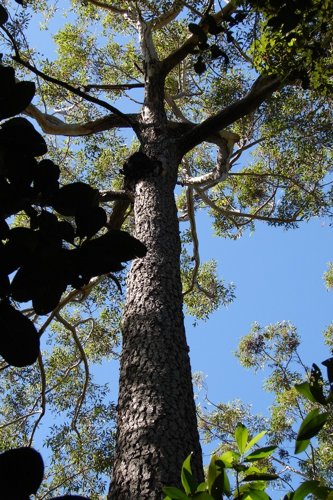 Location: tropical Hinchinbrook island, QLD, Australia The ID for this tree is taken from the Thorsborne Trail guide given by Queensland government site : The trial passes through tall open forest of mainly Gympie messmate (Eucalyptus cloeziana)